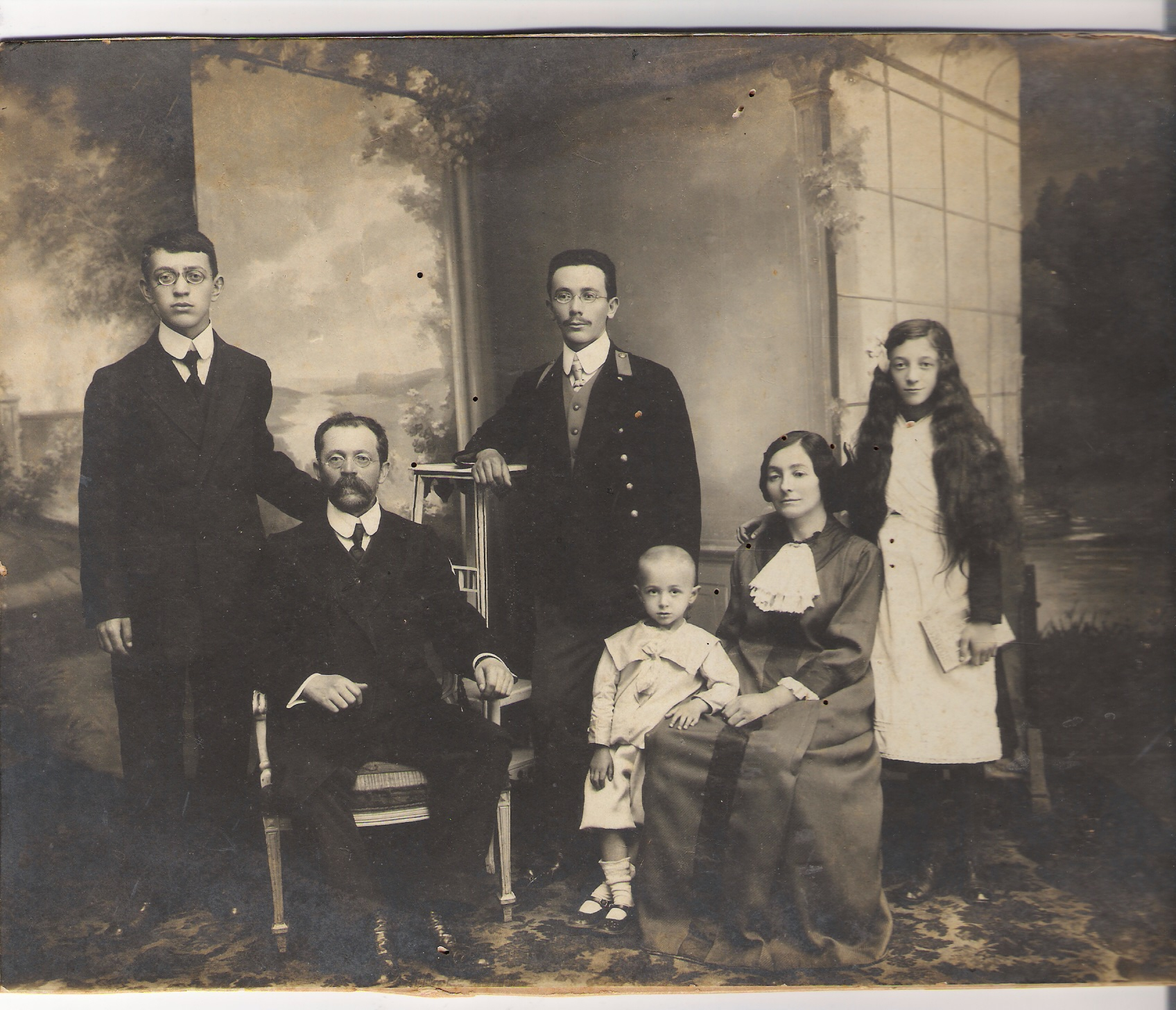 Avraham Cholodenko and his family in Kiev in 1915. From left to right: Yitzhak, Avraham, Aharon, Eliyahu, Rivka, and Nina